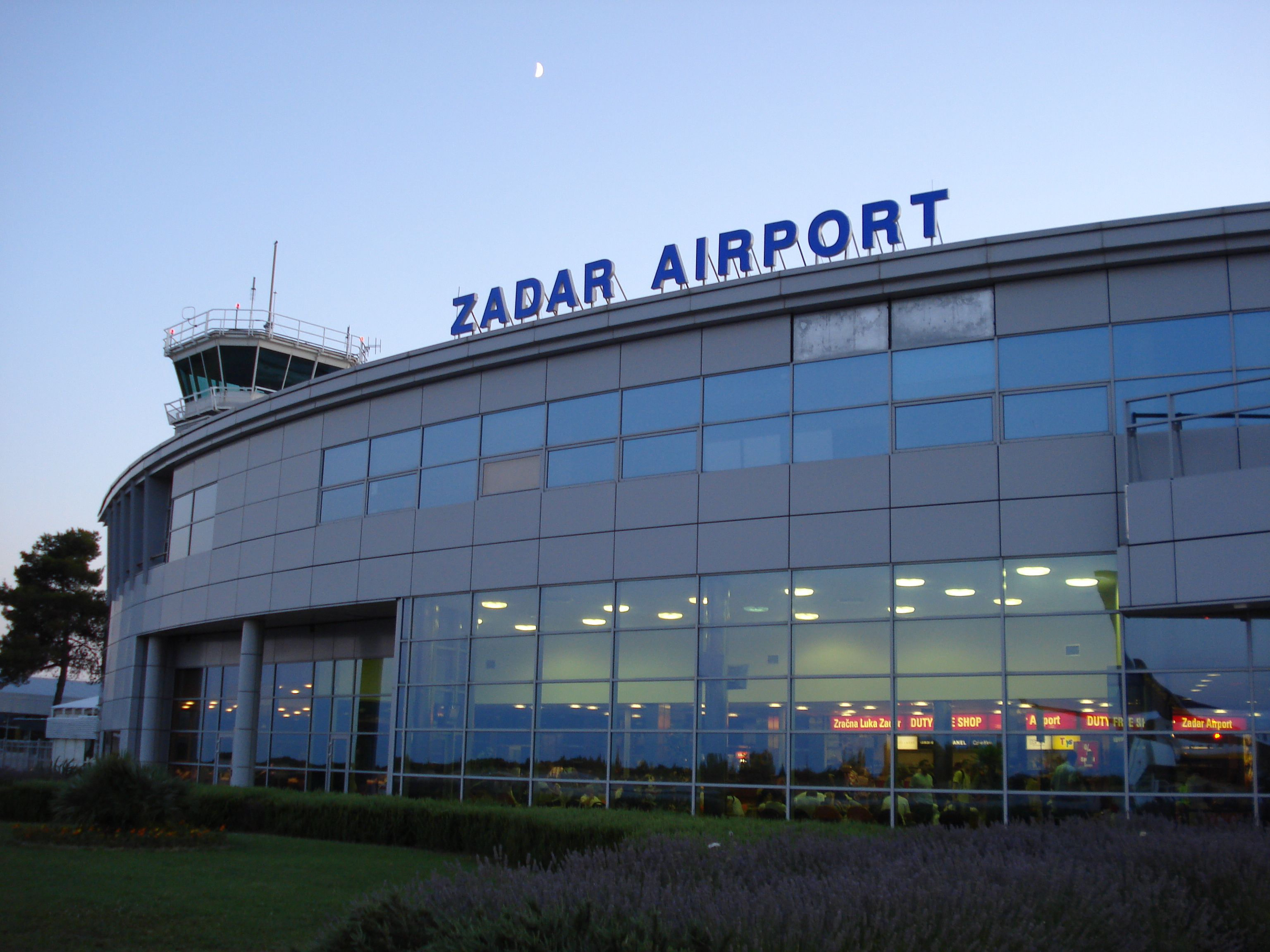 Zadar Airport terminal building, as seen from airside.